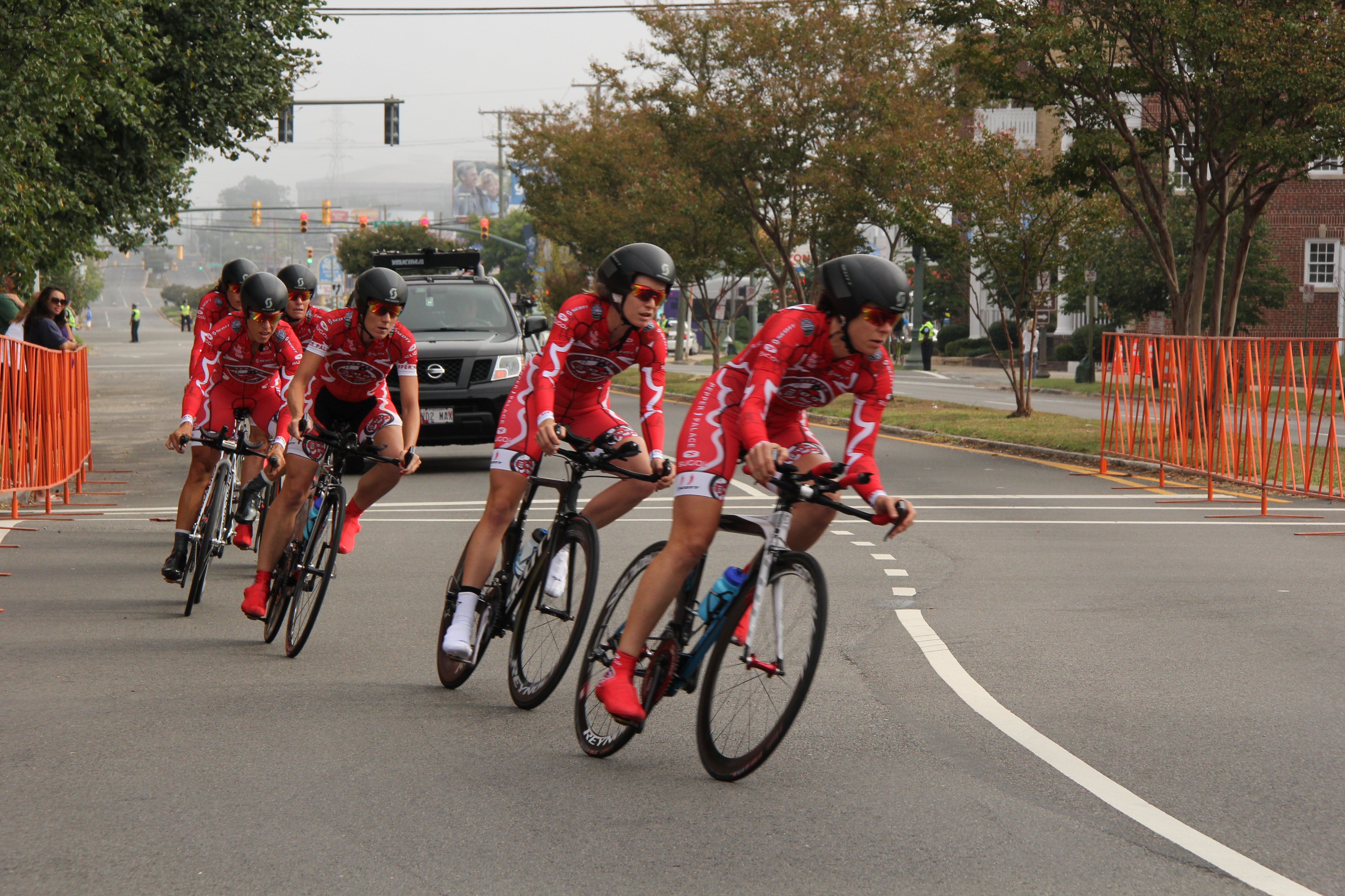 The world has come to Richmond. Welcome! Bienvenidos! Willkommen! 2015 UCI Road World Championships, in Richmond, United States